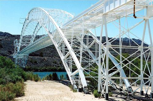 Bridgepixing the Trails Arch Bridge (aka Topock Bridge) spanning the Colorado River connecting Topock, Arizona and nearby Needles, California. This Arch Bridge was built in 1916, carried the famous Route 66 and is currently listed on the National Register of Historic Places. After a modern Interstate 40 in Arizona Bridge was built, this historic bridge was converted to a Pipeline Bridge. Additional Bridge Photos and a Bridge Blog at